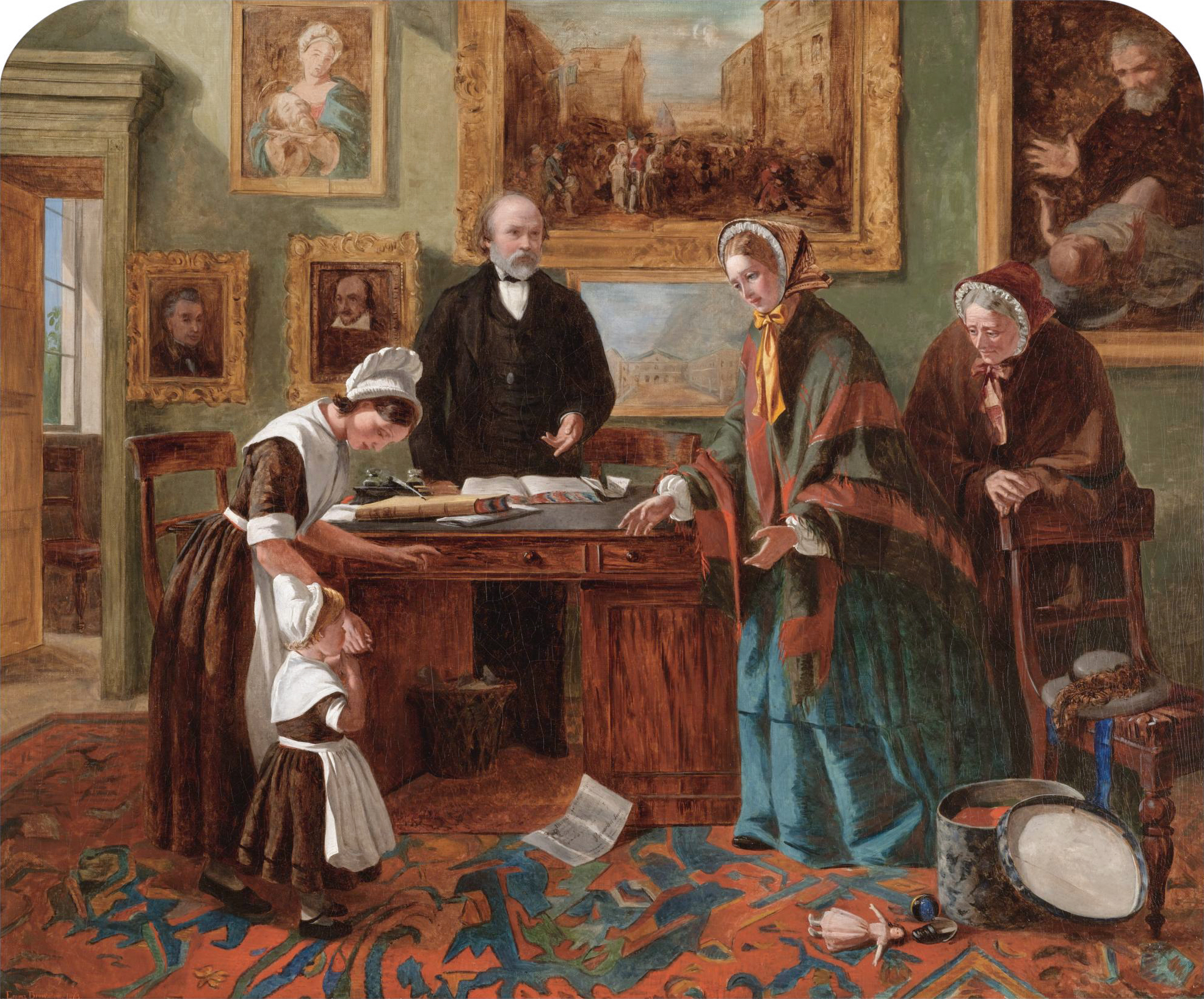 The Foundling Restored To Its Mother 1858 painting by Emma Brownlow depicting her father John Brownlow in the Foundling hospital, London. Hogarth's painting The March to Finchley is in the background.